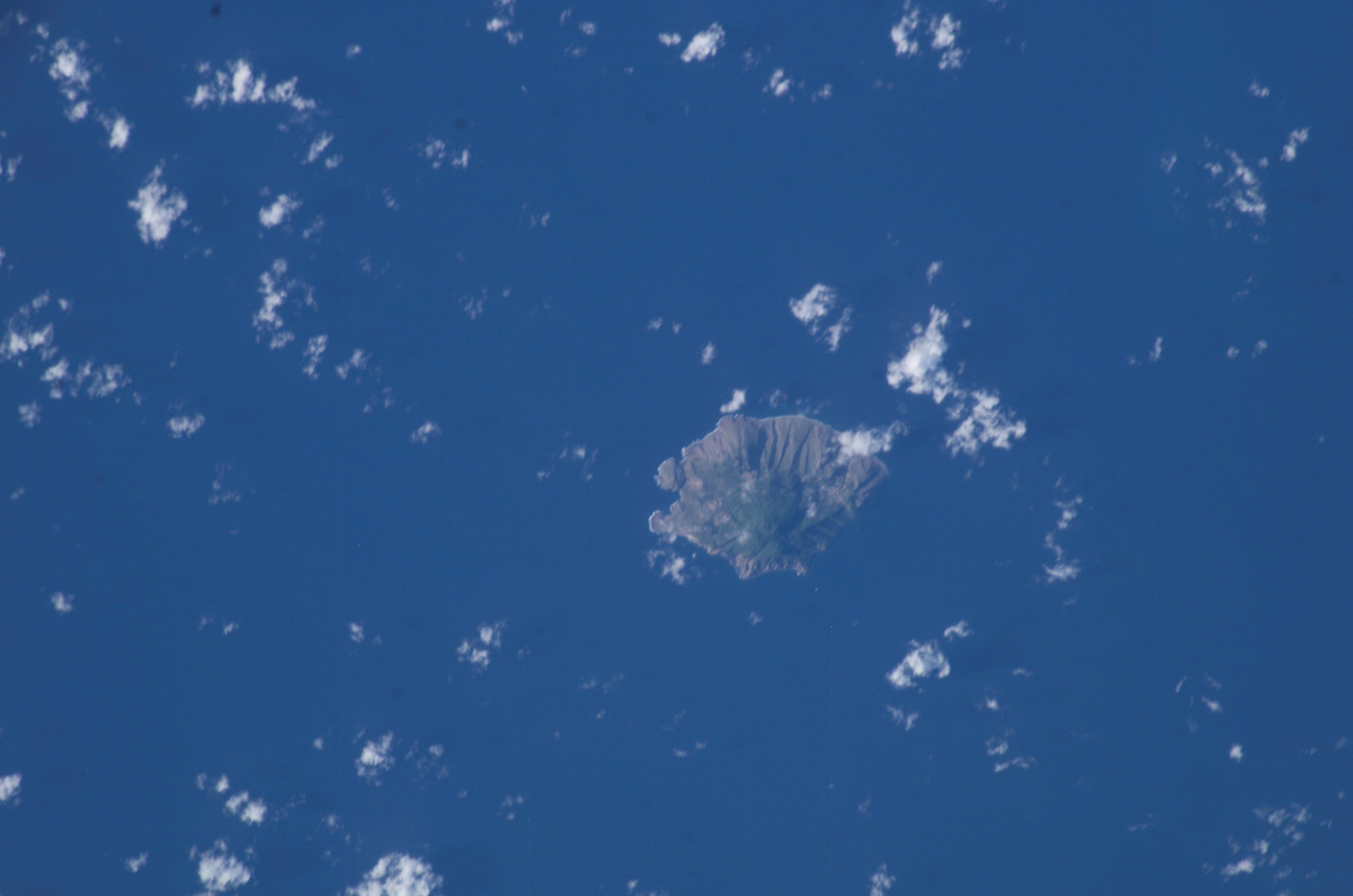 Saba from ISS